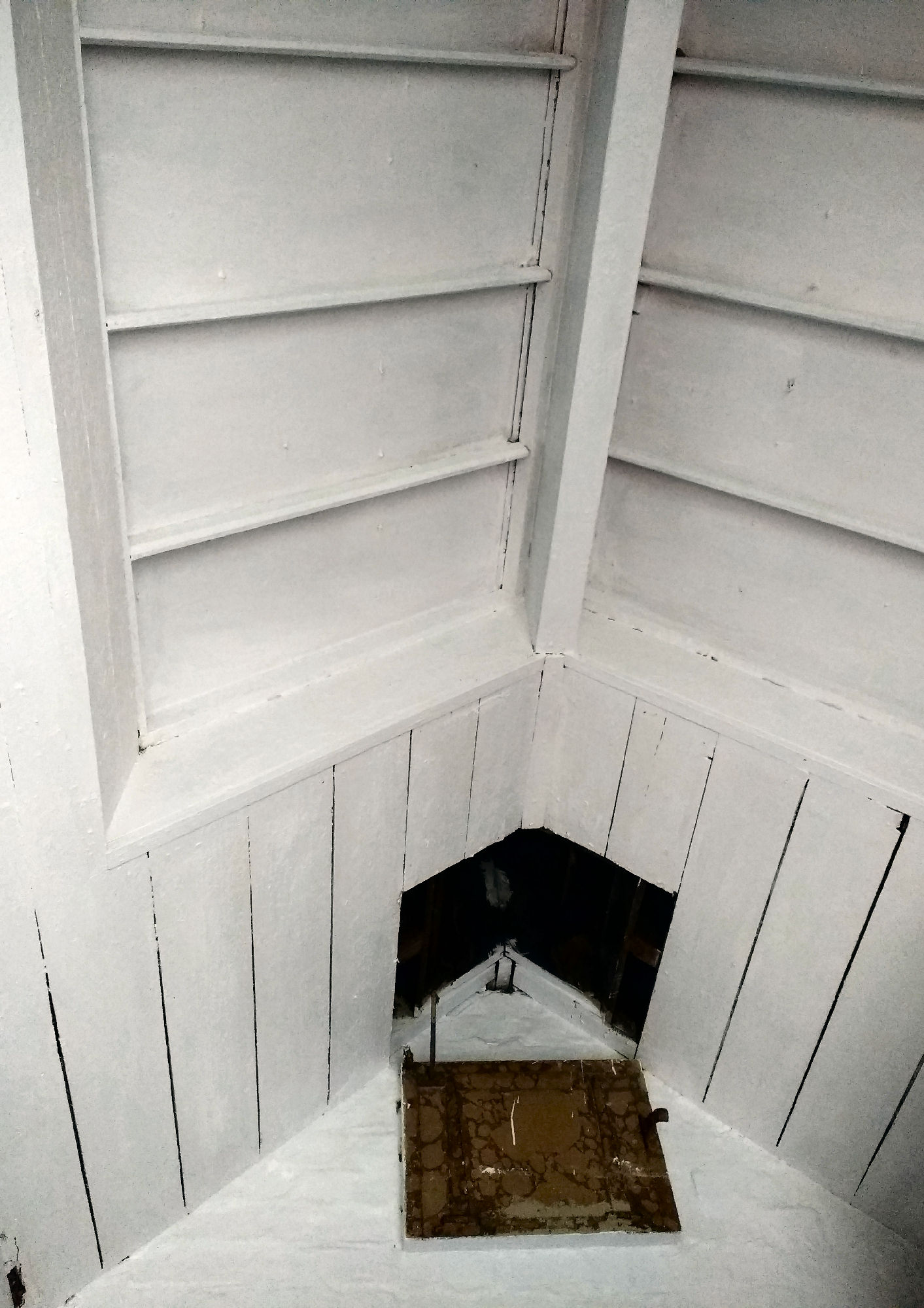 The interior of Kew Mortuary, showing ventilation system